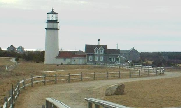 The Cape Cod, or Highland, Lighthouse, Truro Massachusetts. The original site is marked by a boulder in the foreground; the Pilgrims Monument tower in Provincetown can be seen in the distance, right.